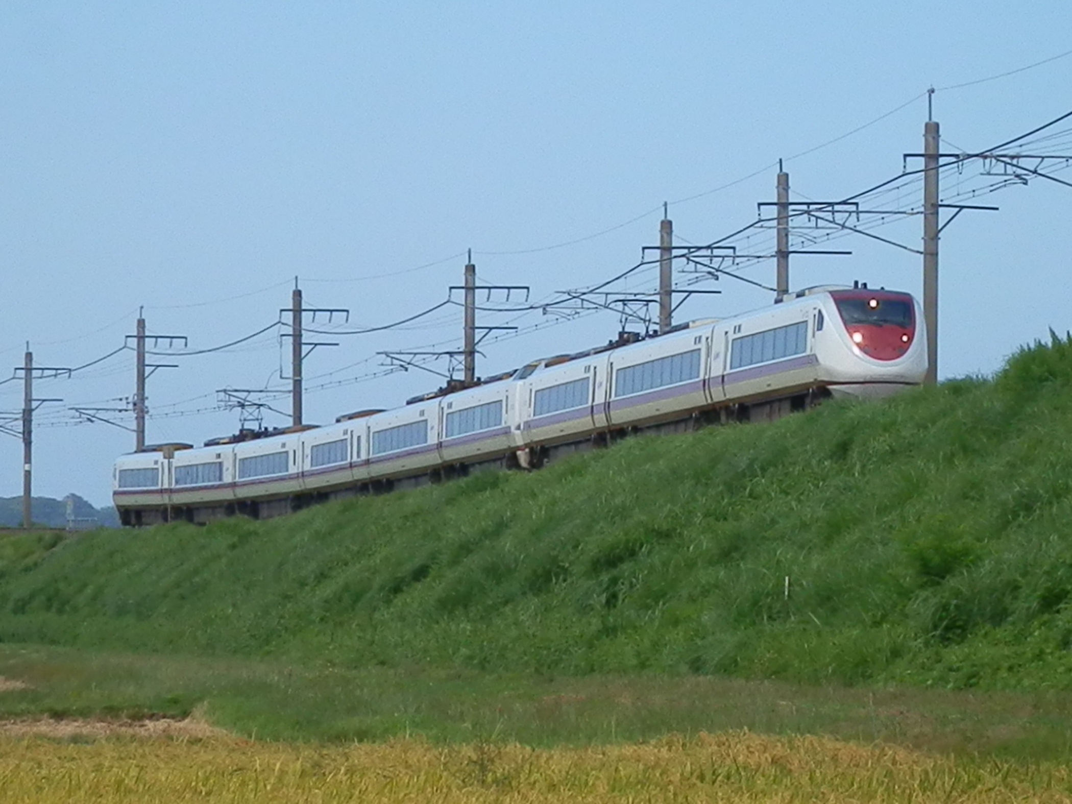 EMU of Hokuetsu Express Series 681 on a "Hakutaka" Limited Express at Kubiki